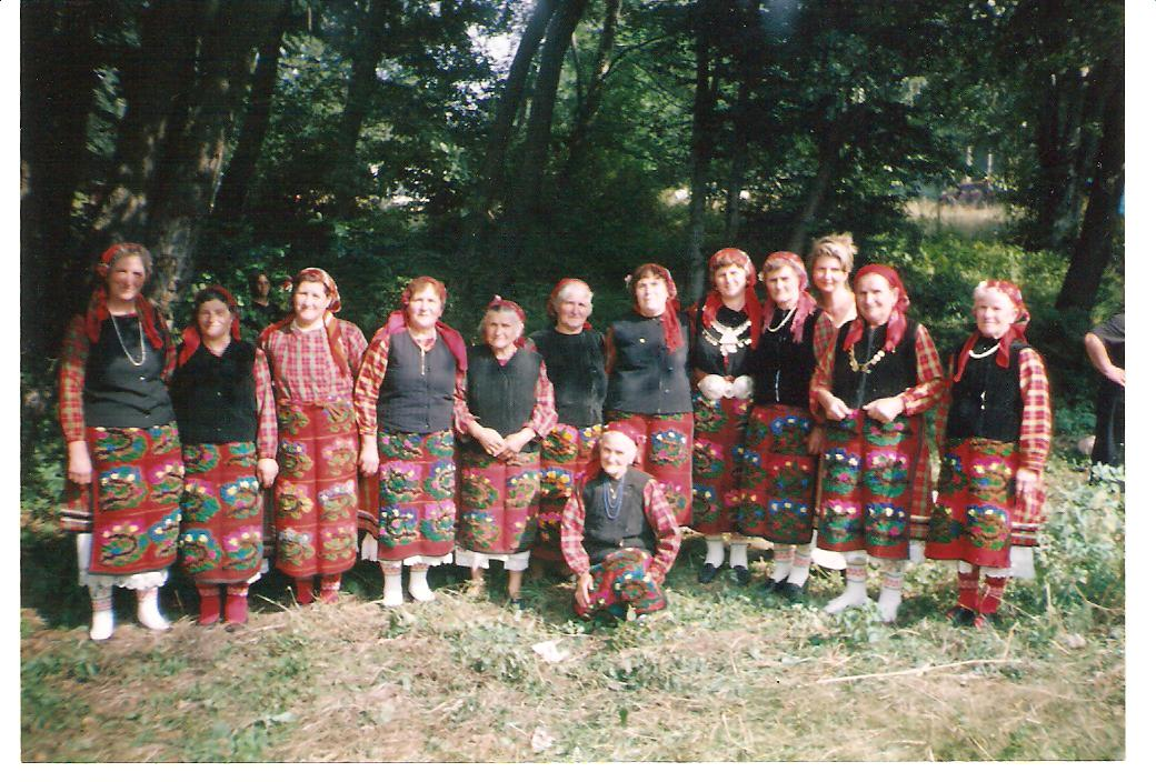 Folk group from Ploski